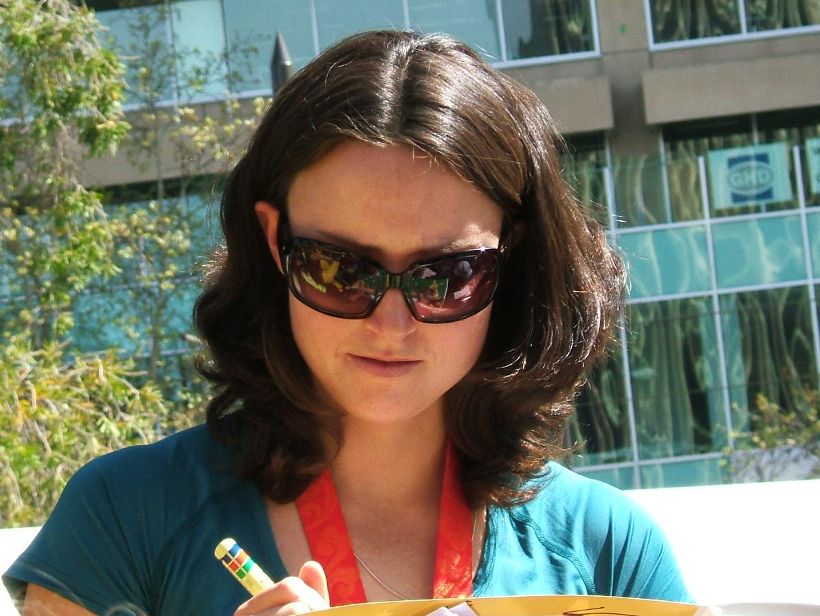 Jacqui Lawrence at the 2008 Olympic welcome home parade in Adelaide